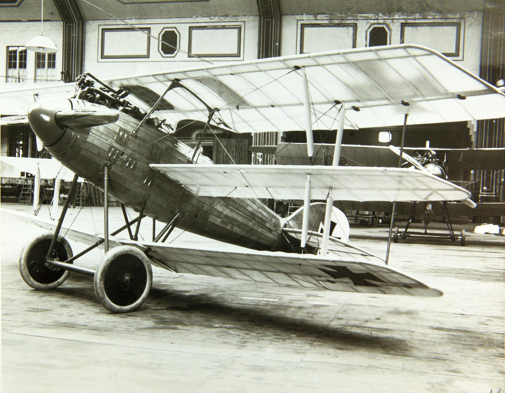 L.F.G. Roland D.IV/Dr.I